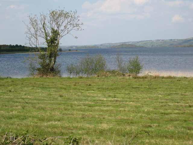 Ballinafad Bay At the south-west corner of Lough Arrow. Inishmore Island [G7813 can be seen out in the lough in the middle distance.